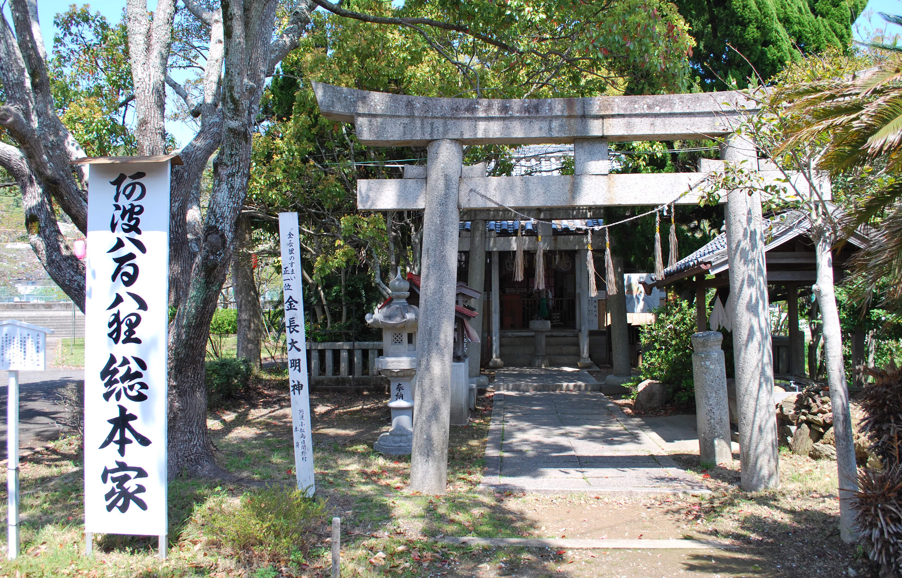 The first torii, Kinchō-jinja